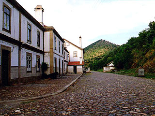 Railway station of Barca d'Alva, five hundred meters from Spanish border.